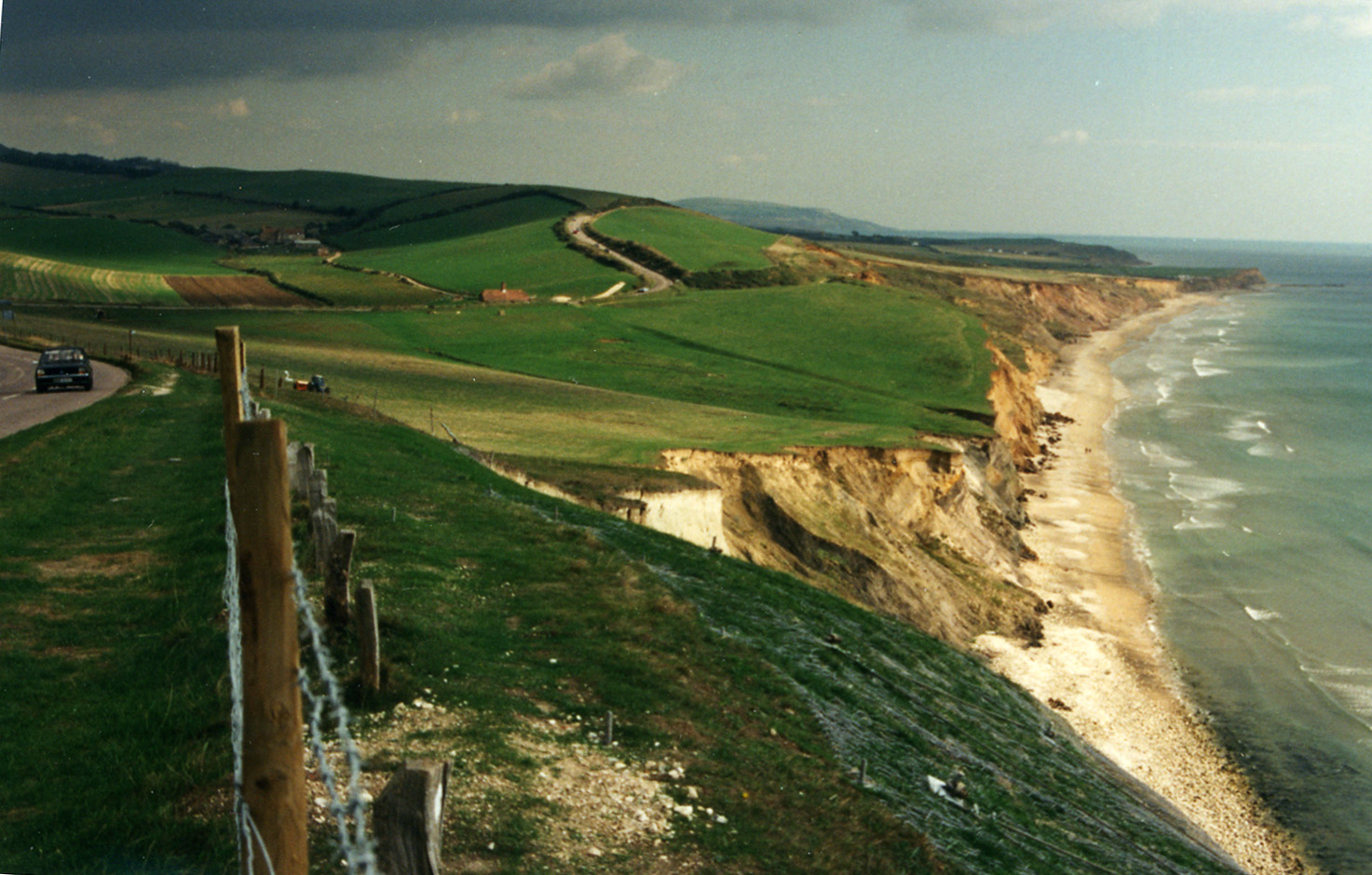 Isle of Wight Landscape 1995. Compton Chine, looking east towards Blackgang.